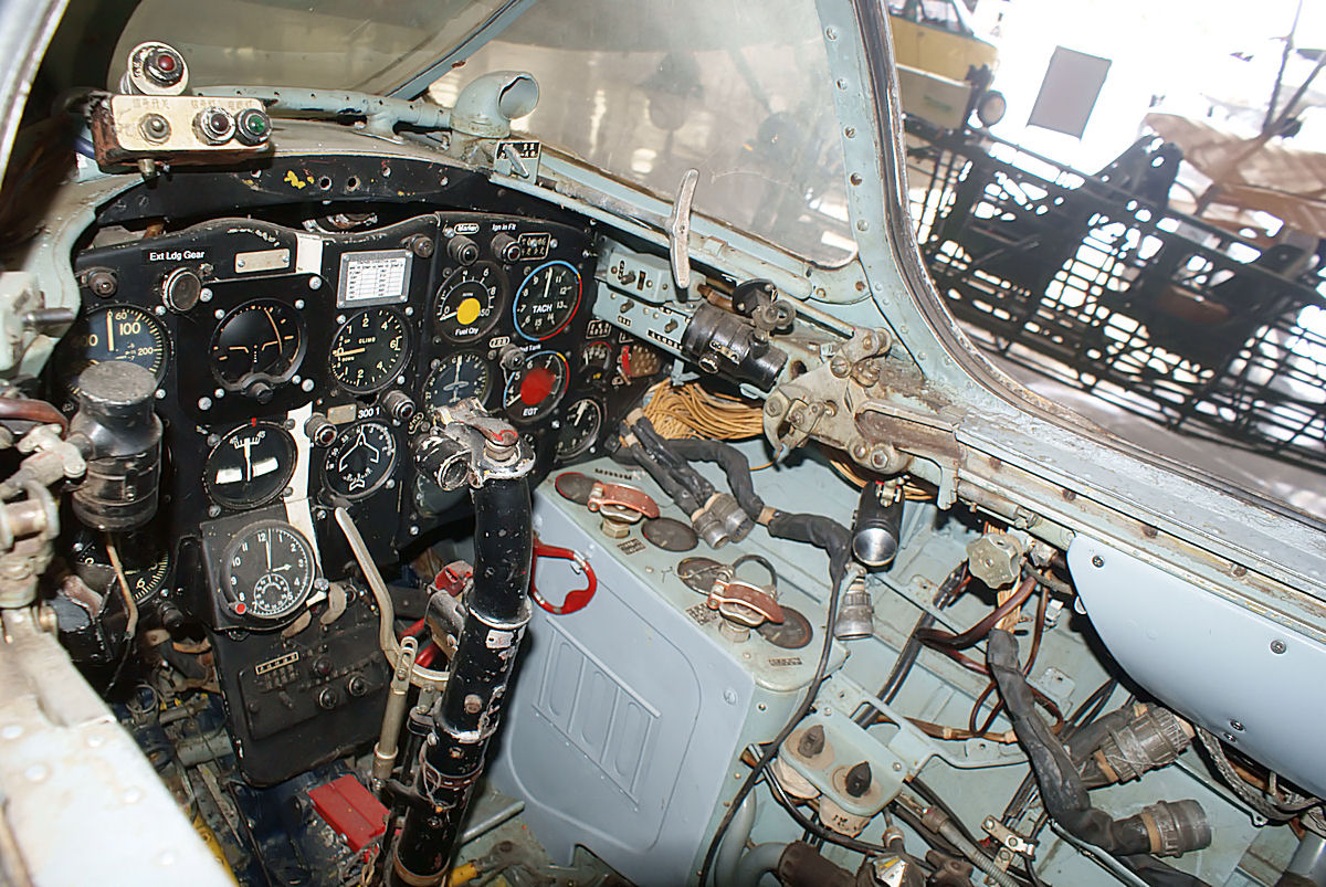 Mikoyan-Gurevich_MiG-17F_Fresco-C_Cockpit_fromL_KAM_11Aug2010